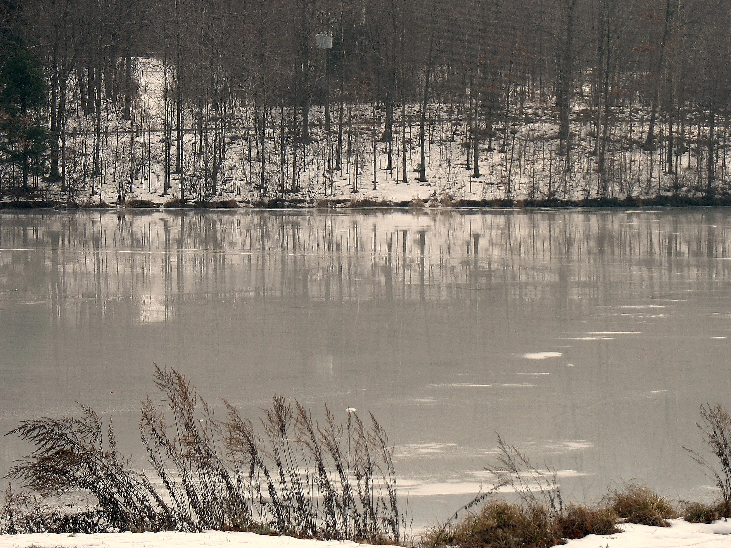 Frozen Frances Slocum Lake at Frances Slocum State Park in Luzerne County, Pennsylvania.